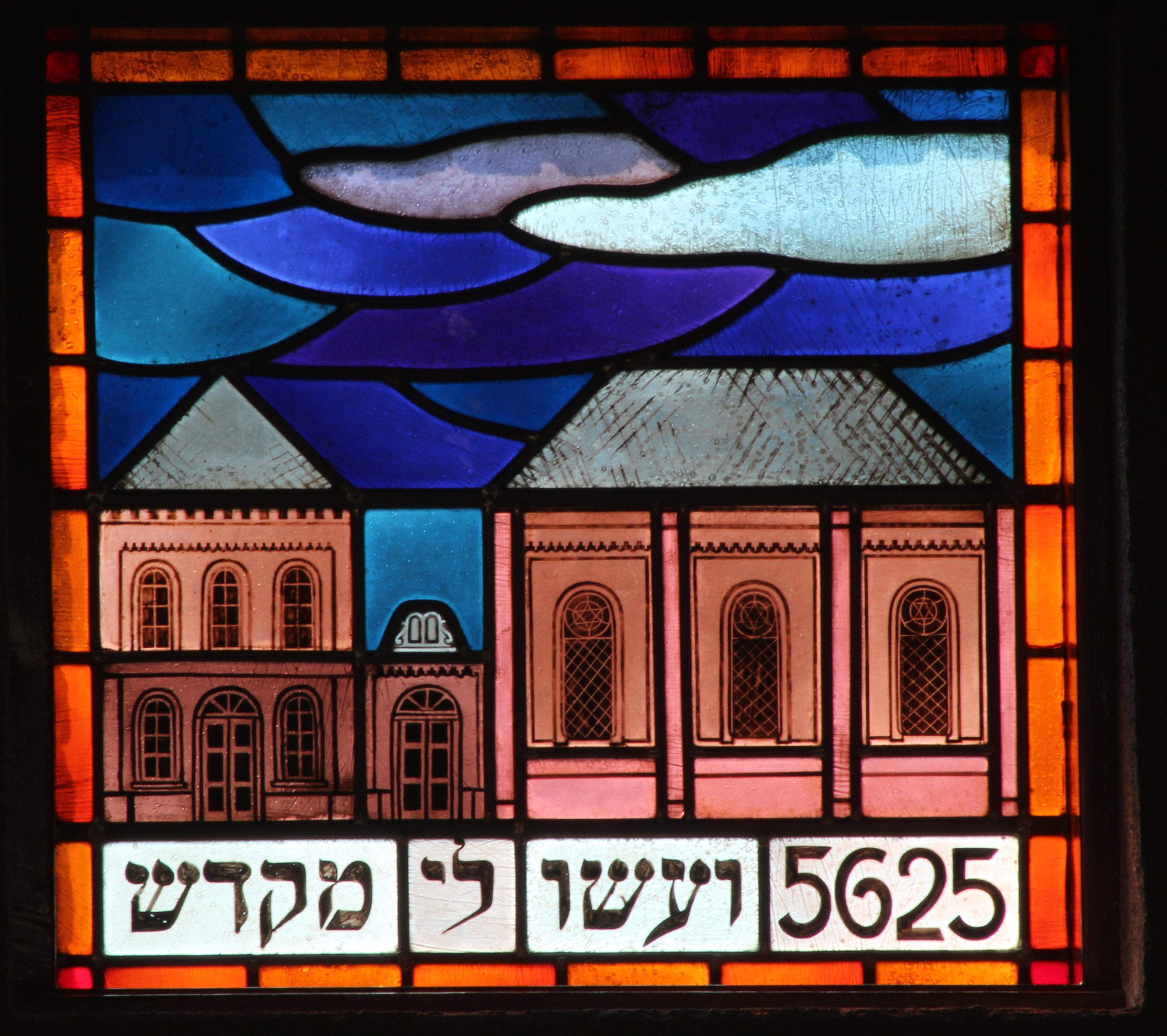 Stained glass window in the synagoge of Enschede, depicting it's predecessor.